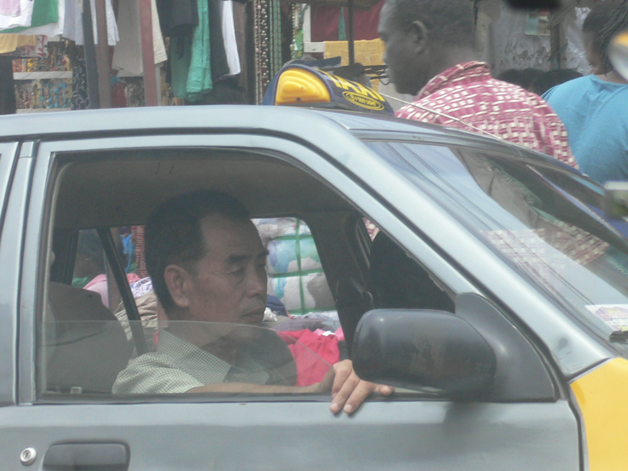 Ghanaian Chinese and Taxicab Driver in Ghana.